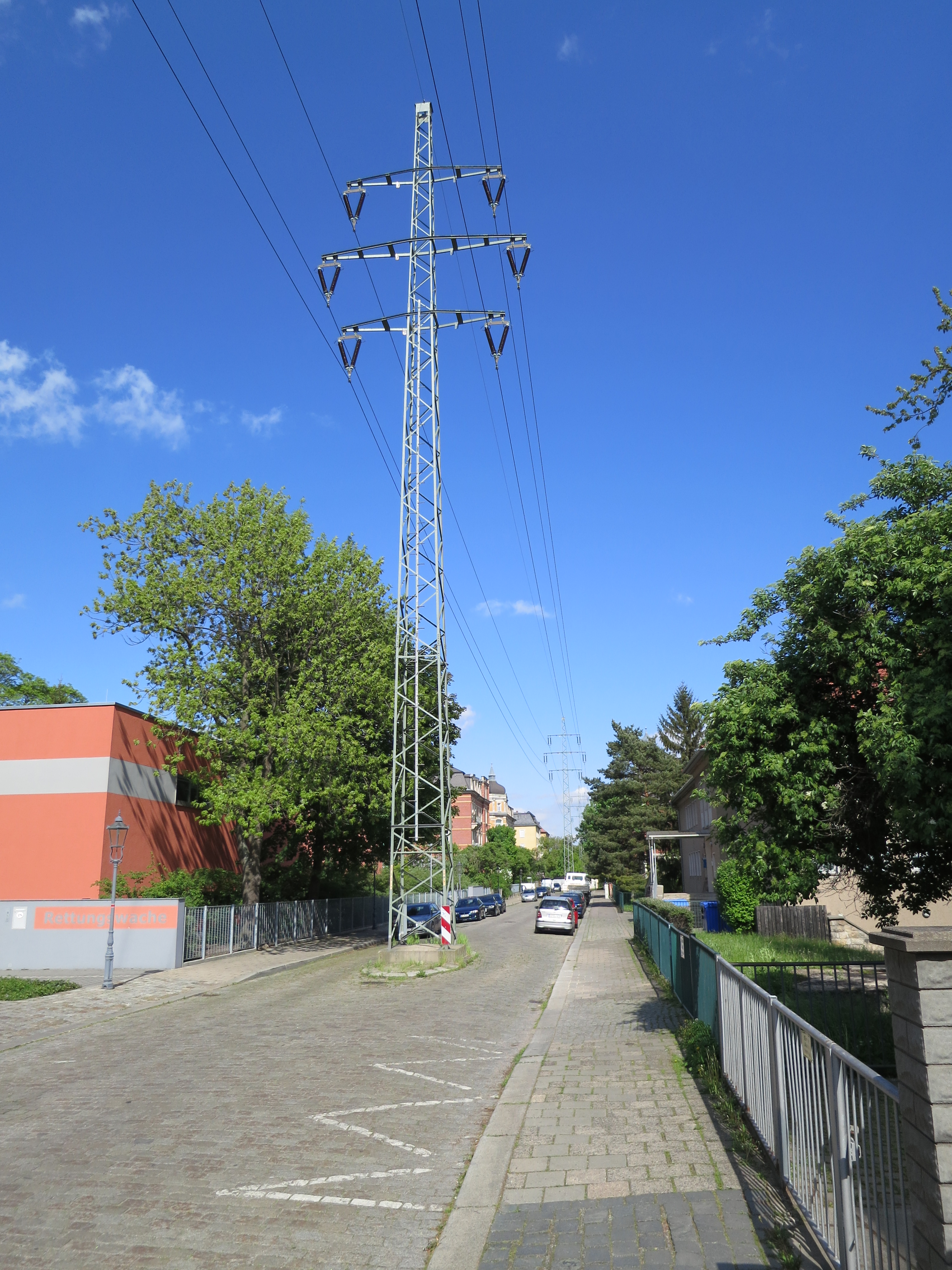 Transmission tower in the middle of the street in Dresden-Löbtau (Grumbacher Straße 26)